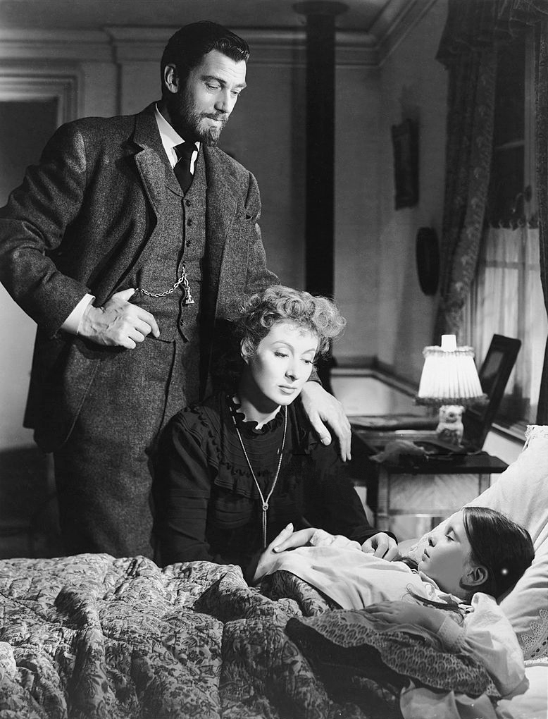 Promotional photograph for the 1943 film Madame Curie From left: Walter Pidgeon, Greer Garson, Margaret O'Brien